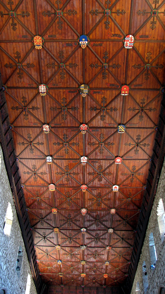 Heraldic ceiling of St. Machar Cathedral, Old Aberdeen, Scotland. Category:Aberdeen